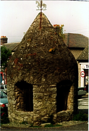 St. Sylvester's Well, Malahide, Co. Dublin, Ireland. Old fresh-water artesian well + house.